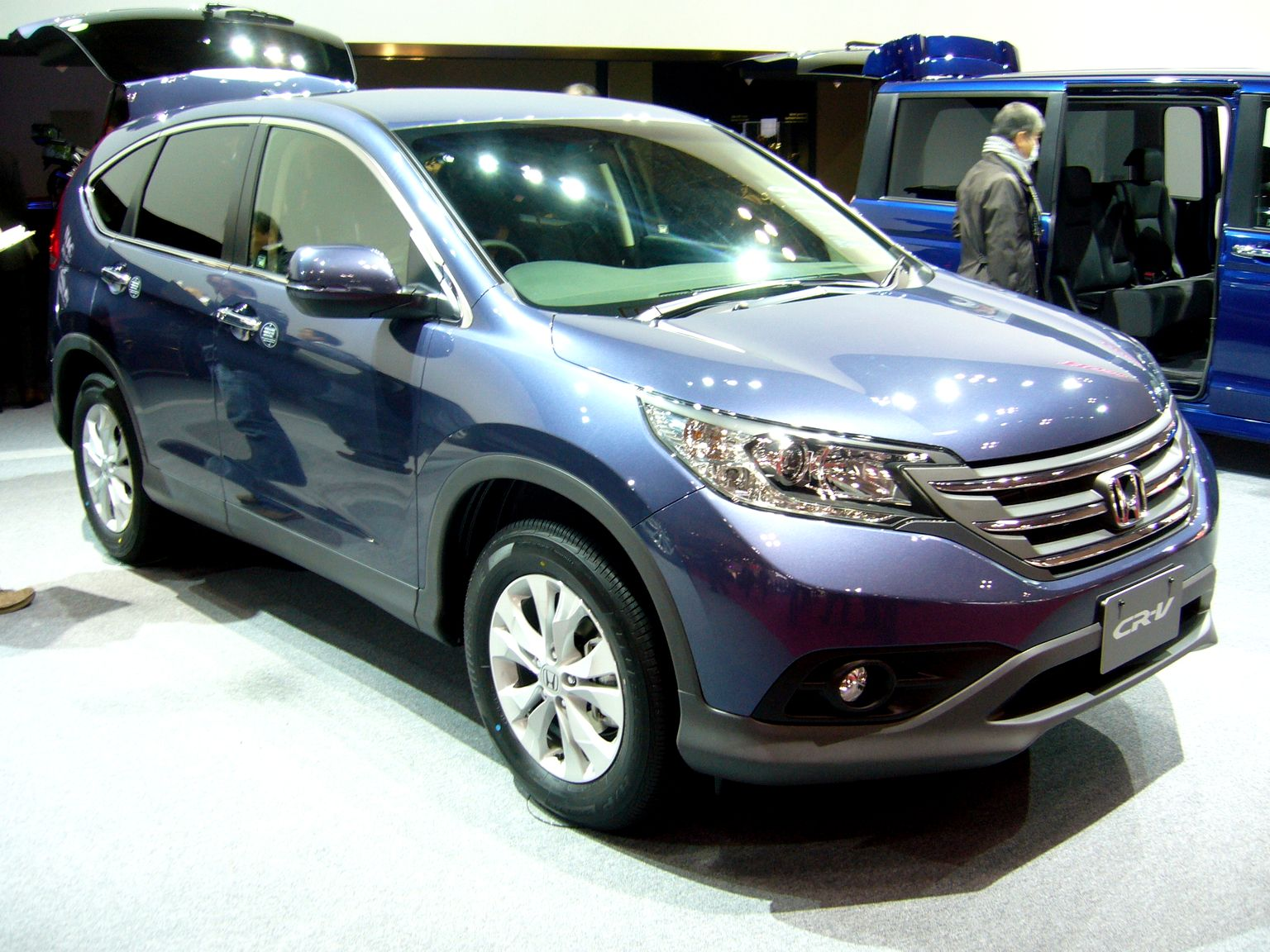 HONDA CR-V